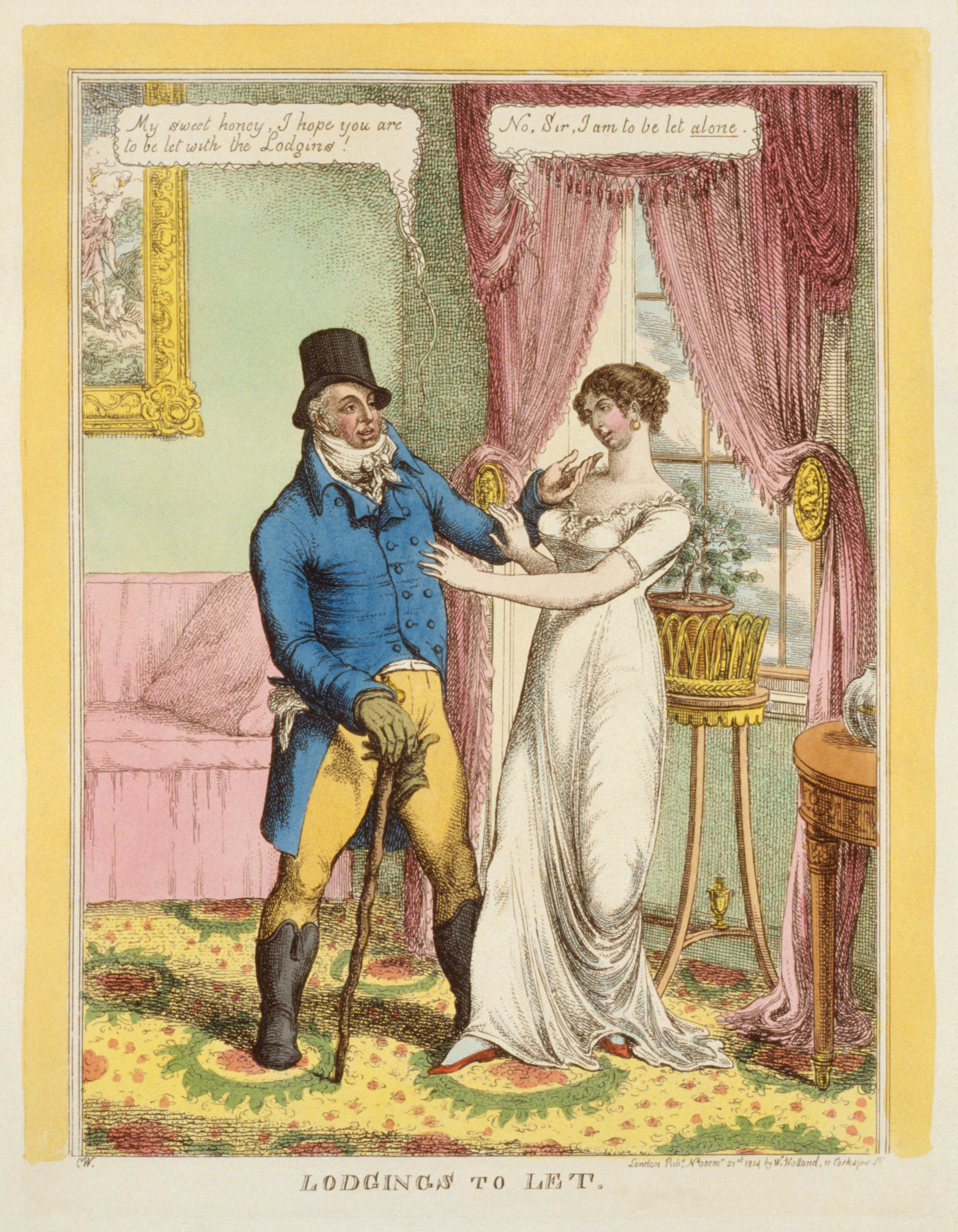 "Lodgings to let" "Cartoon showing a fashionably dressed man standing in a well-furnished sitting-room, speaking to a pretty and elegant young woman. He wears a tophat, Hessian boots, and carries a large rough walking-stick. He says: My sweet honey, I hope you are to be let with the lodgins! She answers: No, sir, I am to be let alone." color engraving